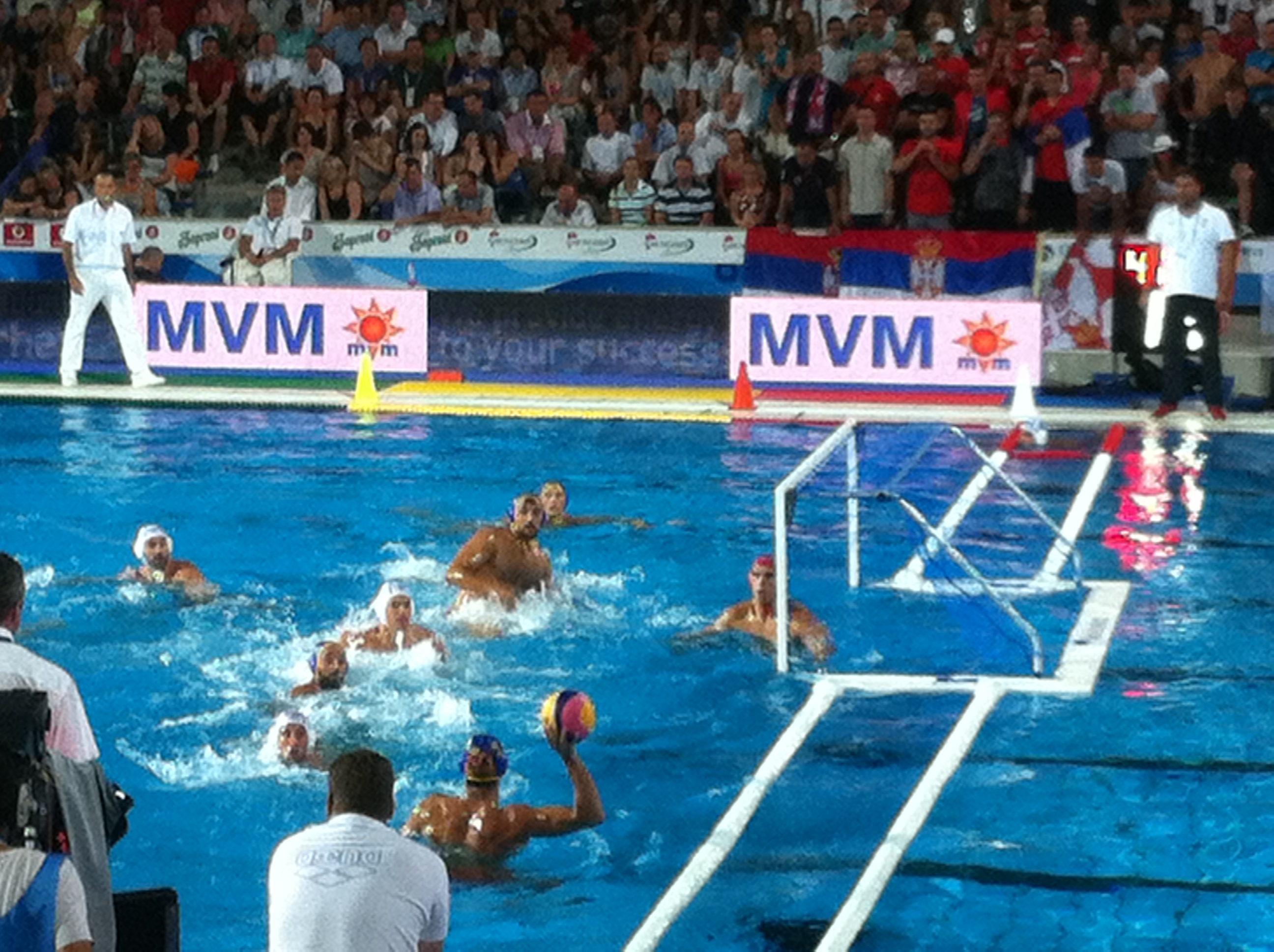 2014 European Water Polo Championship, Serbia vs Montenegro semifinal game 10:9